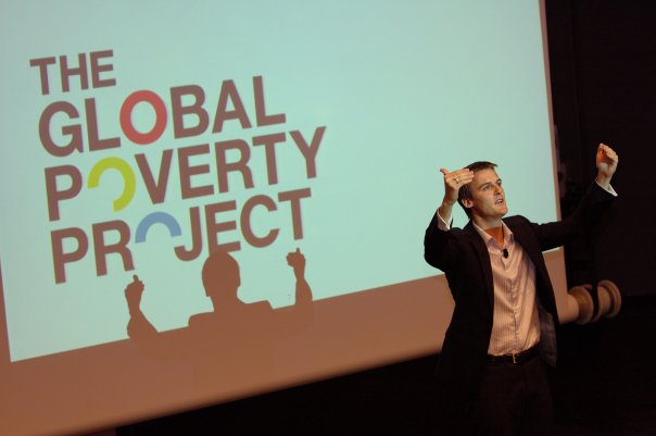 Hugh Evans presenting the Global Poverty Project.